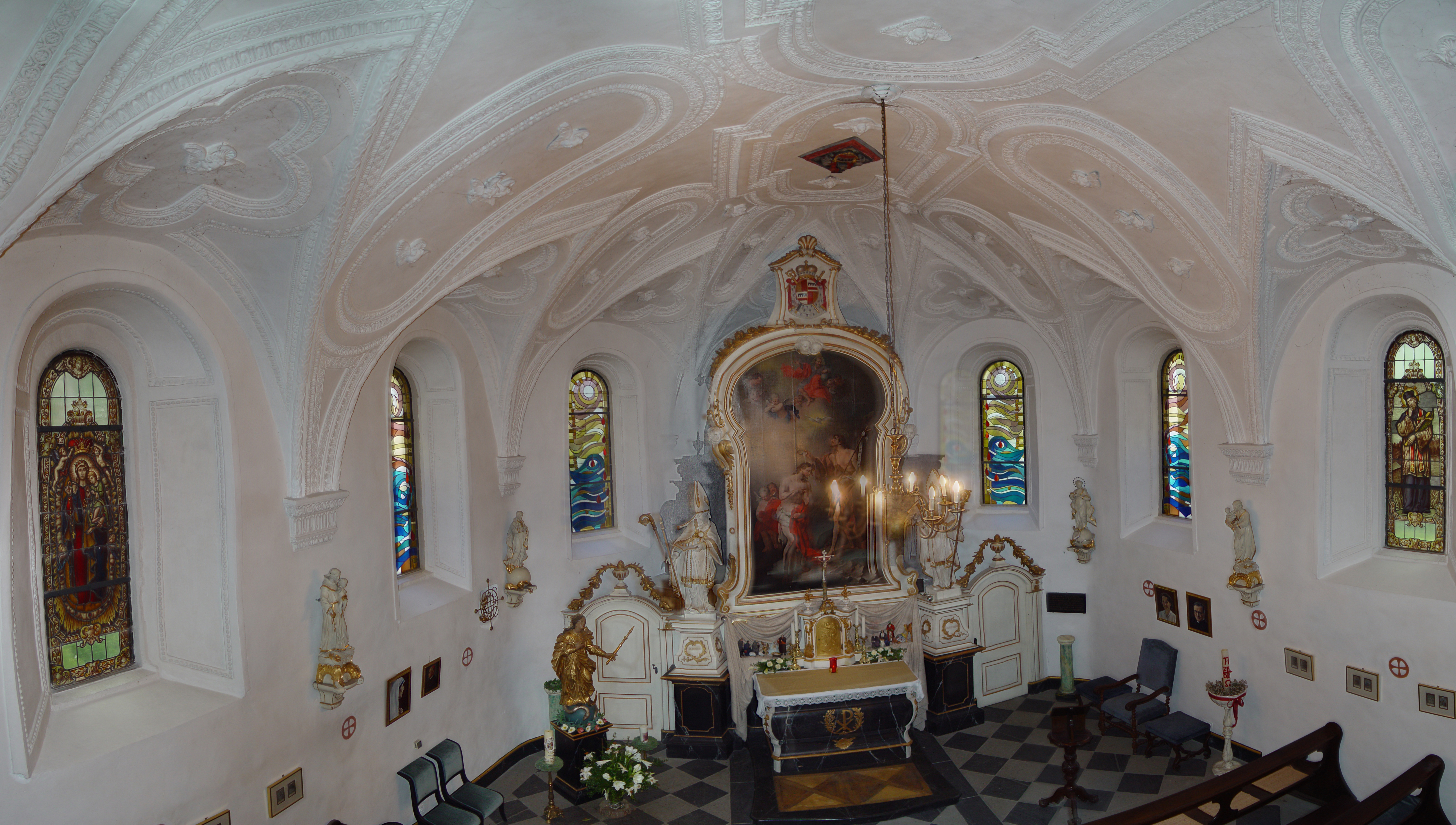 Castle Laer in Meschede